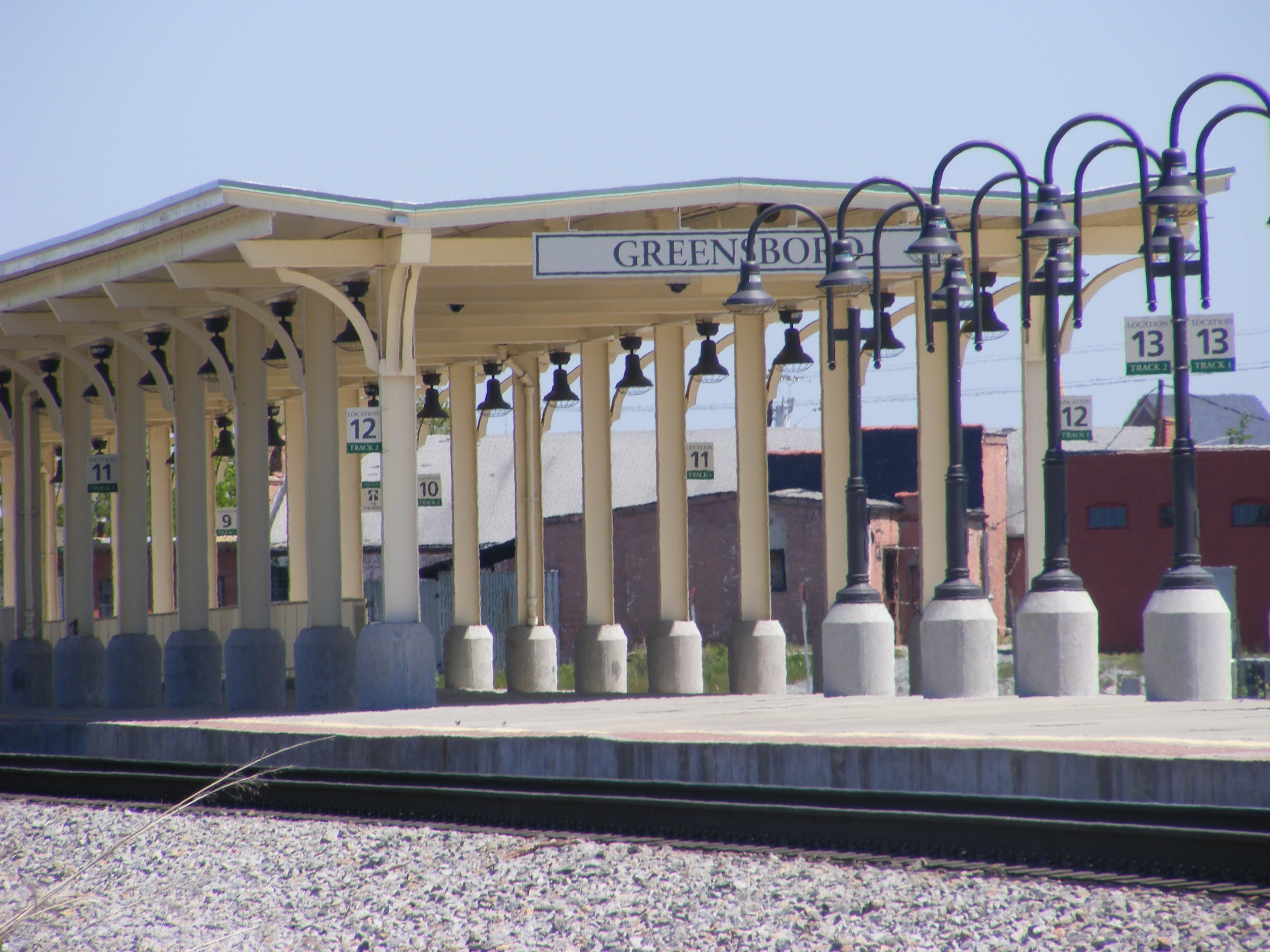 Tim Jones railway station